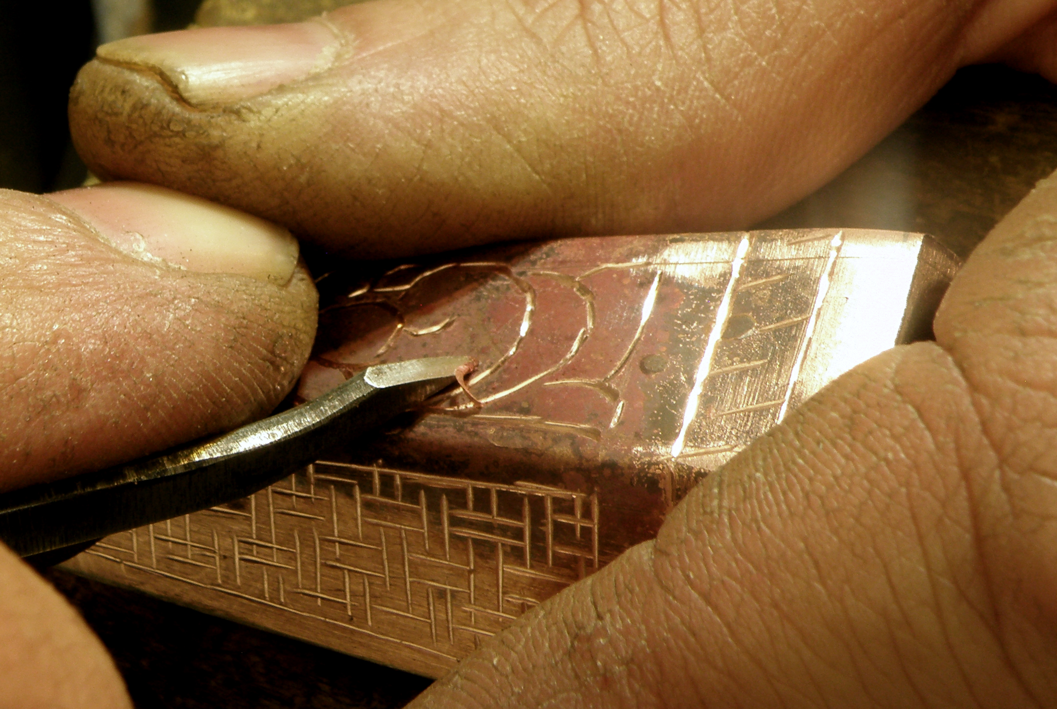 Tabriz Graver Technique.